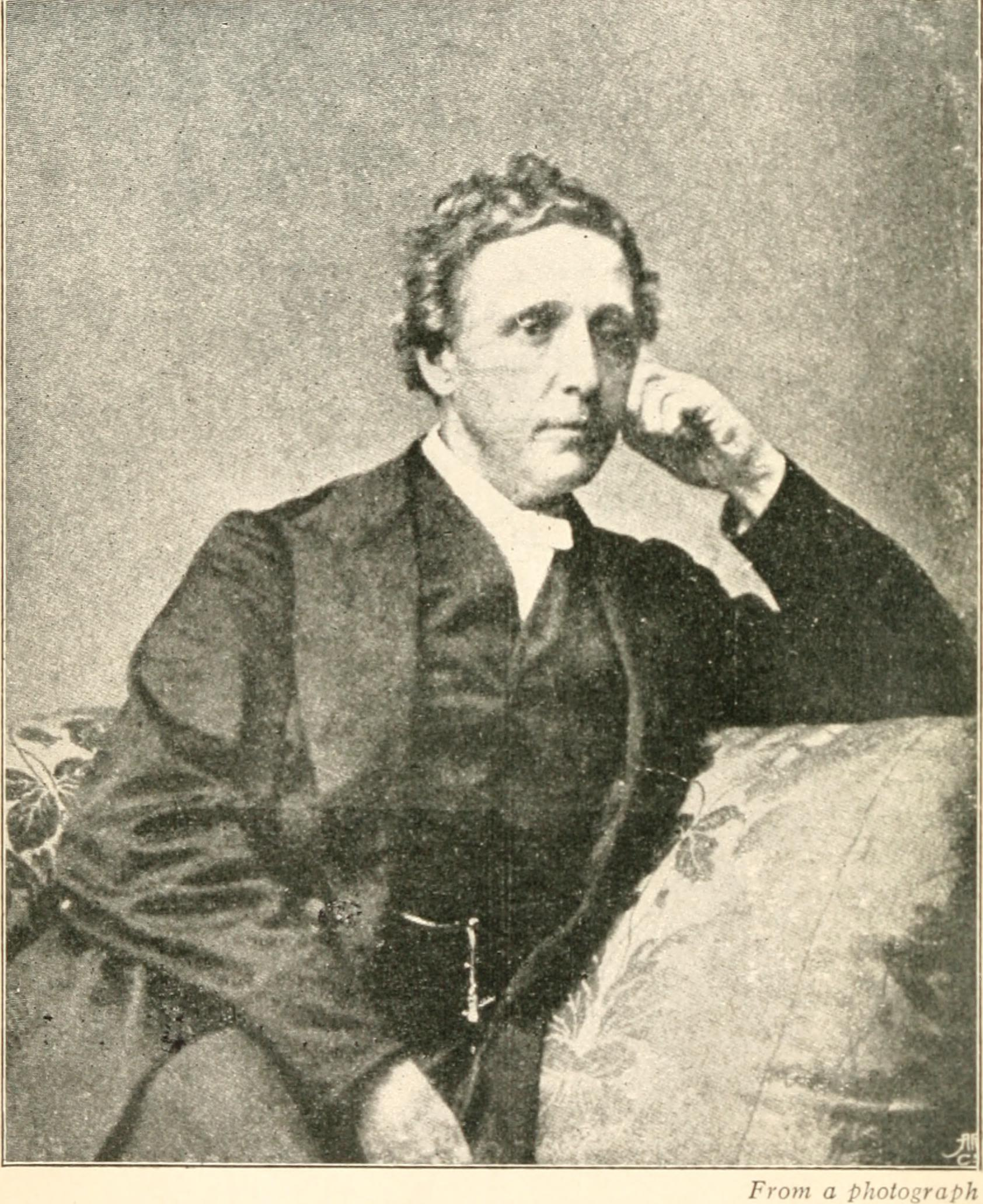 Lewis Carroll Title: Through the looking-glass, and what Alice found there Year: 1917 (1910s) Authors: Carroll, Lewis, 1832-1898 Milner, Florence Subjects: Publisher: Chicago, New York, etc. Rand, McNally & Company Text Appearing Before Image: ' Text Appearing After Image: From a CHARLES LITNVIDGE DODGSMN(Leiiis Carroll) CbrougbChe Loohing-Glaes Hnd Cdbat HUce found Cbere By Lewis Carroll Edited by FLORENCE MILNER Harvard College Library, Cambridge, MassachusettsFormerly of Detroit University School, Detroit, Michigan Illustrated by F. Y. CORY